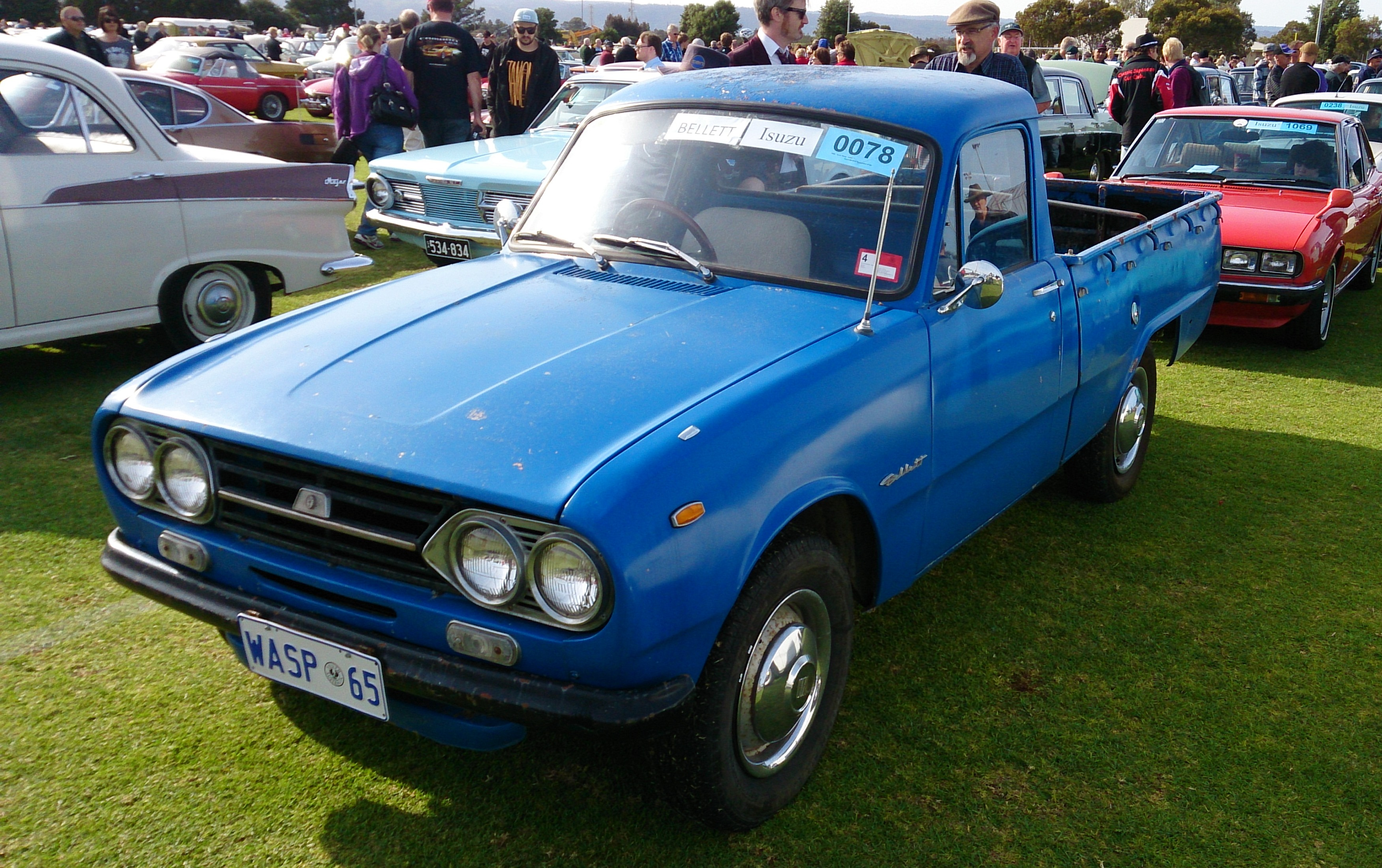 1965 Isuzu Wasp. The Wasp was developed from the Isuzu Bellett. The pictured example carries “Bellett” badges.